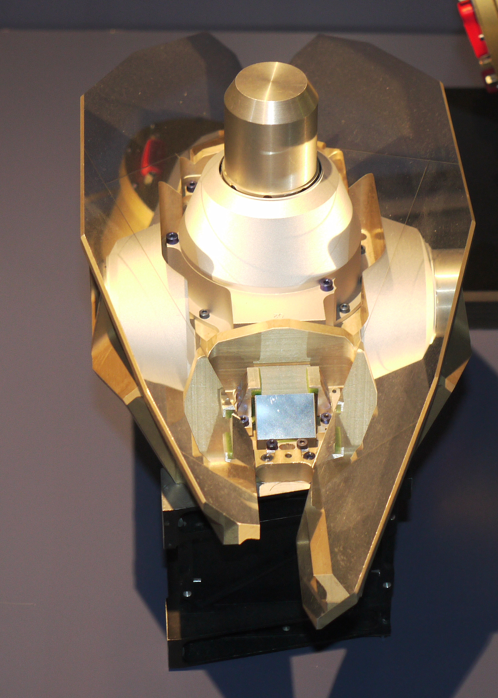 Optical head of an infrared horizon sensor used by the satellites Spot 1, 2 and 3 et ERS 1 and 2 (fabricant Aérospatiale Matra), Museum of Air and Space Paris, Le Bourget (France)